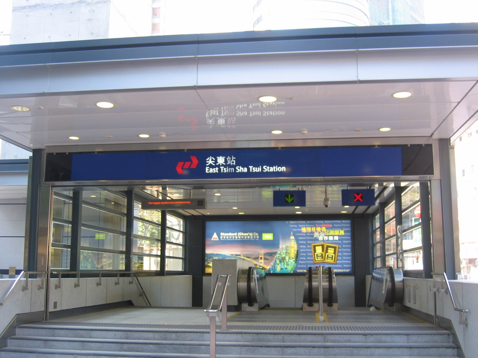 Mody Road (P1) exit at East Tsim Sha Tsui KCR Station, Hong Kong.